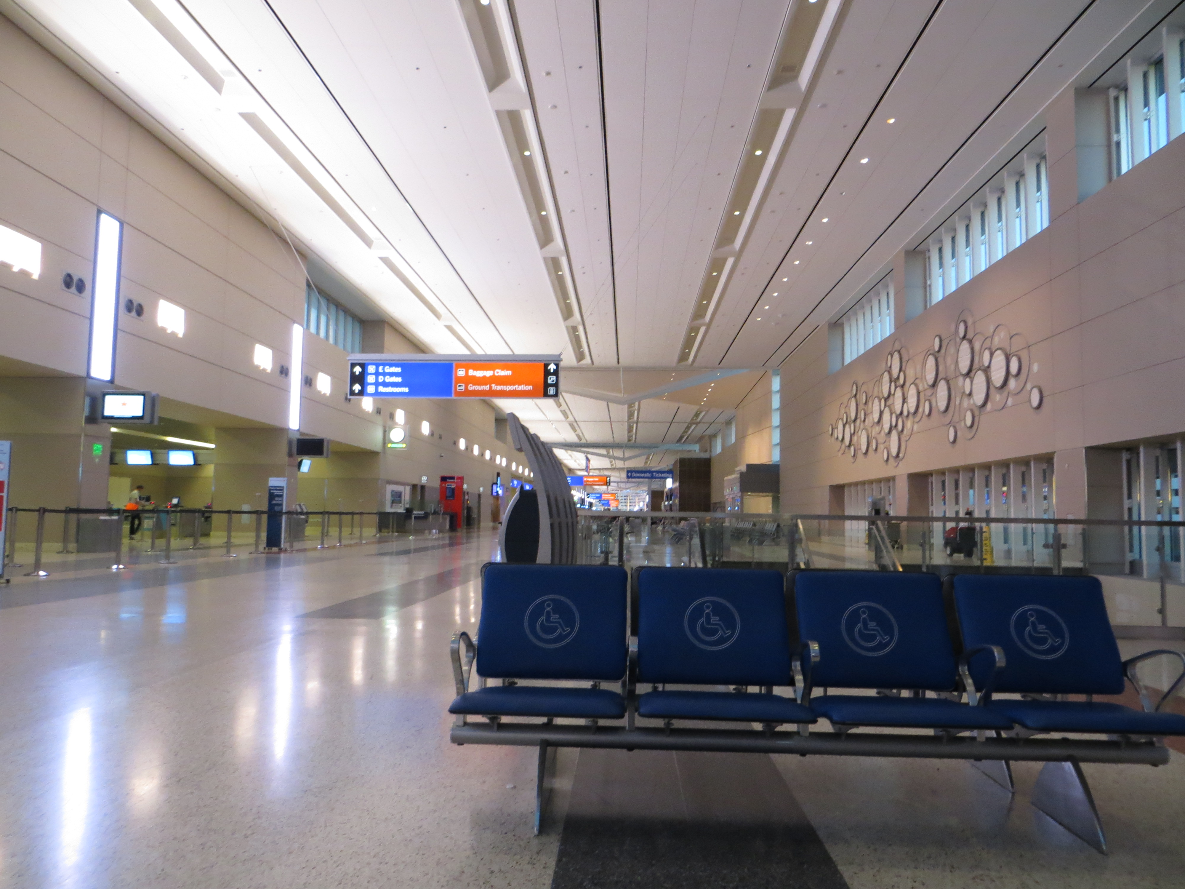 Landside at LAS' Terminal 3.